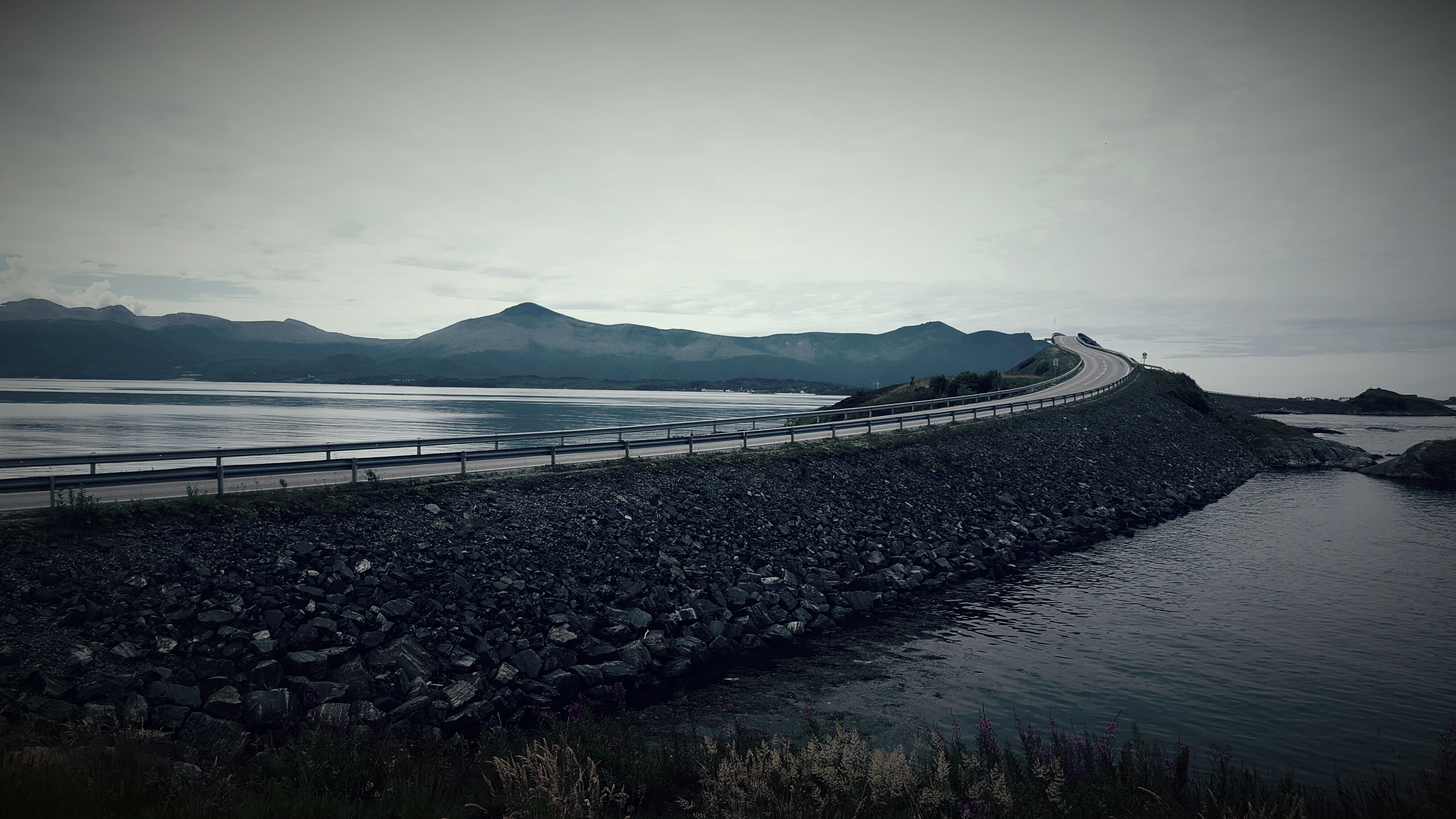 View over Atlantic Road, Norway